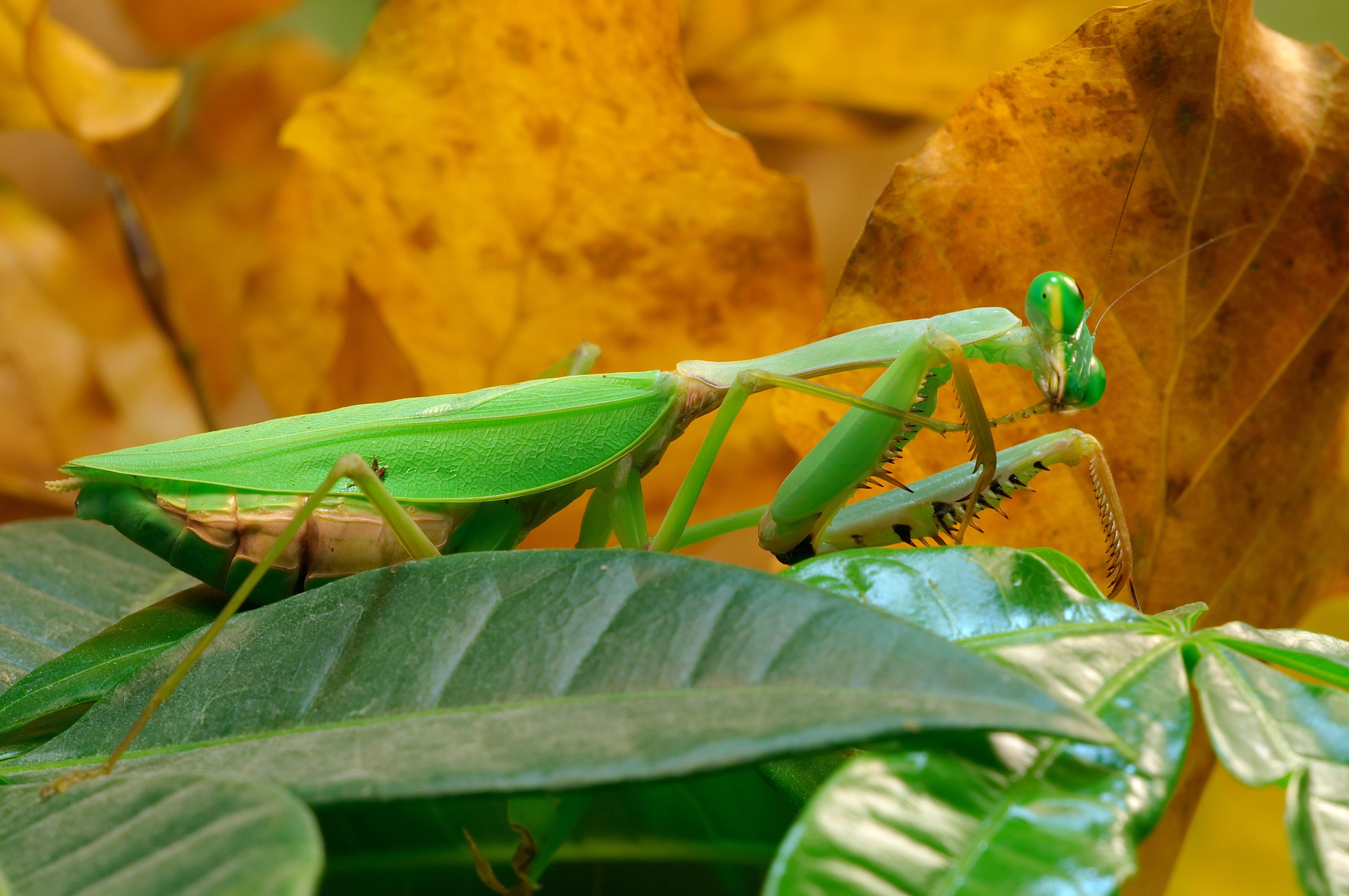 Rhombodera basalis